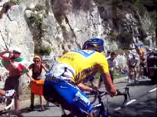 Lance Armstrong during the Tour of France 2005